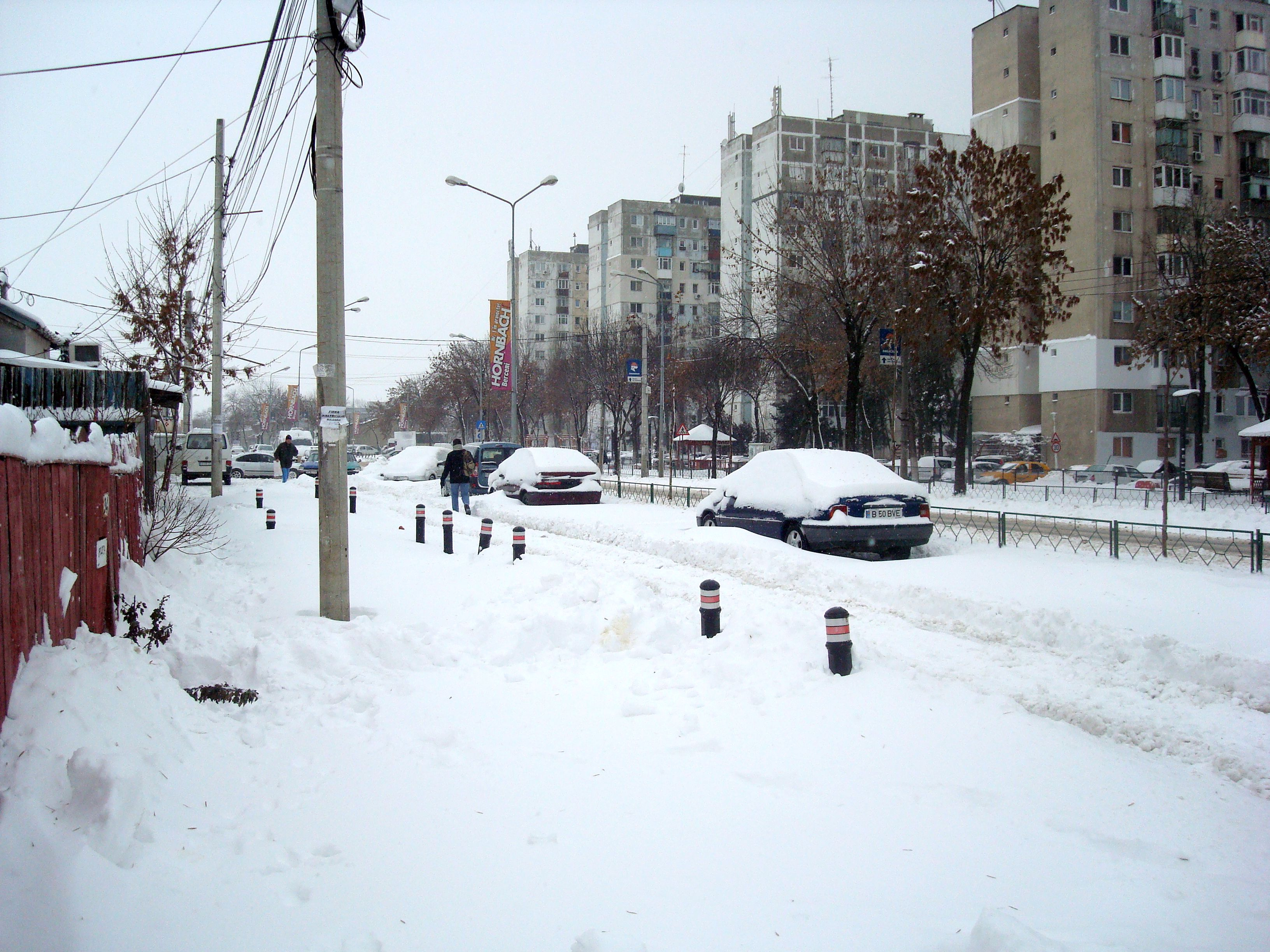 winter